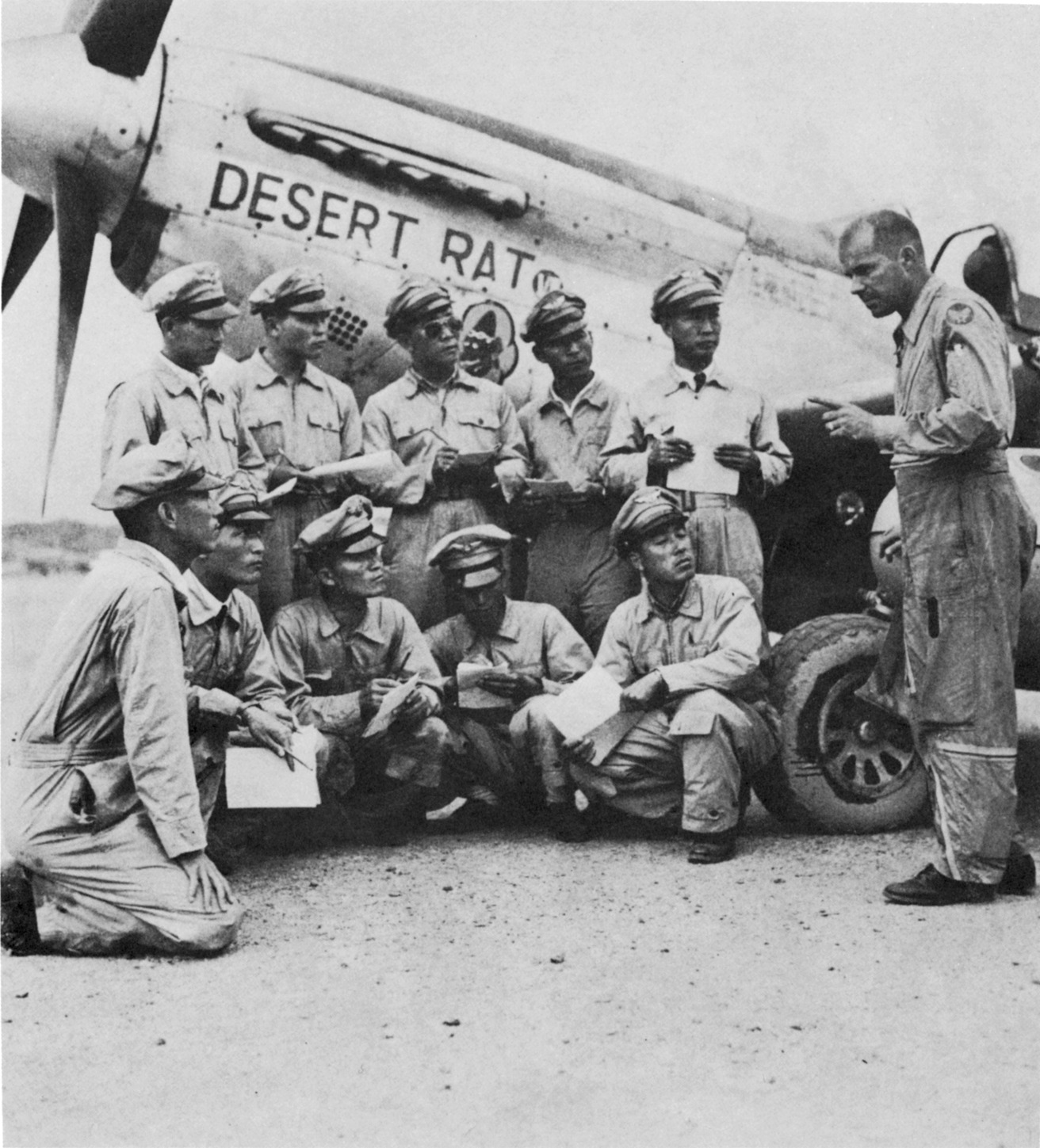 U. S. officer briefs South Korean pilots. Front row (left to right): Lt. Col. Kim Yŏng-hwan (김영환 중령), 1st Lt. Kim Sŏng-nyong (김성룡 중위), Capt. Kang Ho-ryun (강호륜 대위), Capt. Pak Hŭi-dong (박희동 대위), Lt. Col. Chang Sŏng-hwan (장성환 중령) Back row (left to right): 1st Lt. Chŏng Yŏng-jin (정영진 중위), 1st Lt. I Sang-su (이상수 중위), Lt. Col. Kim Shin (김신 중령), 1st Lt. Chang Dong-ch'ul (장동출 중위), Col. I Gŭn-sŏk (이근석 대령).